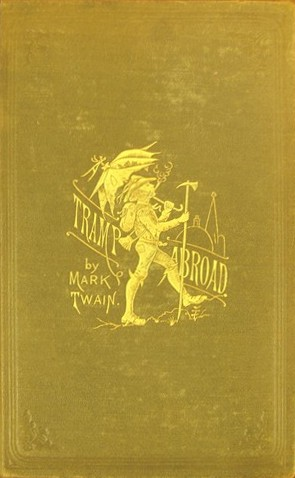 First edition cover of A Tramp Abroad